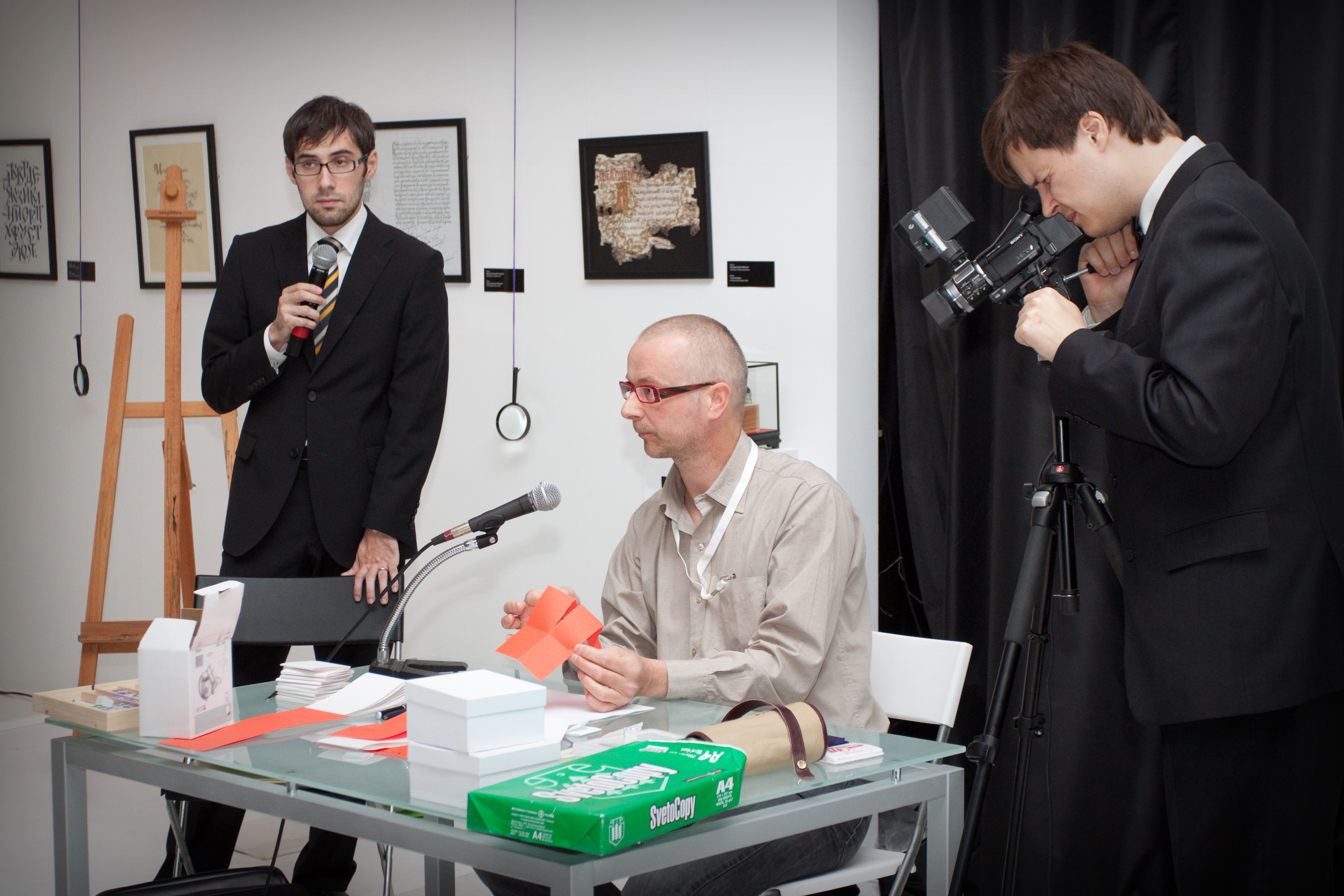 Vlam Bas is giving a lesson at the International Exhibition Calligraphy in Velikiy Novgorod (2010)